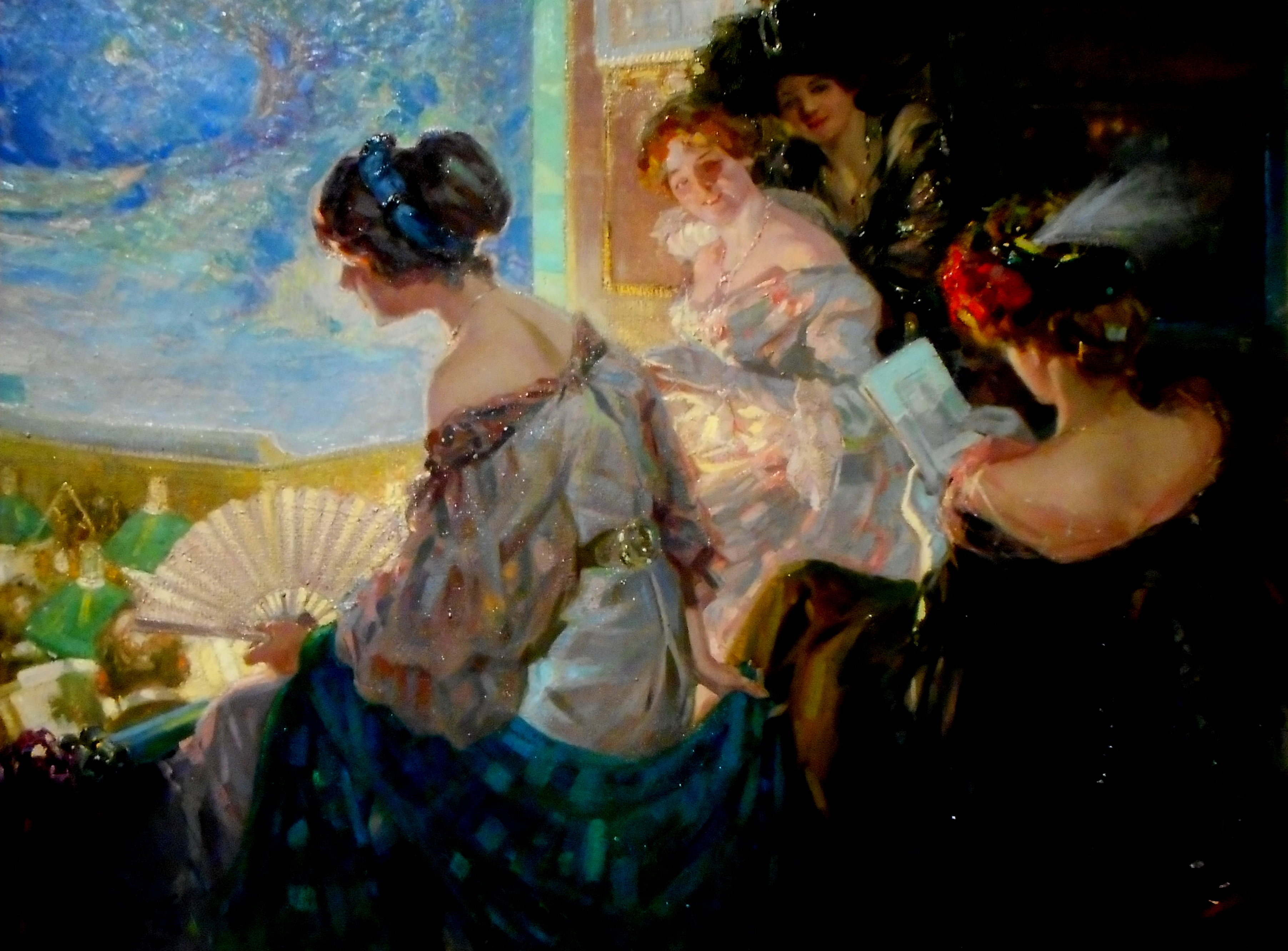 "La loge du théatre" (about 1909) by Ulisse Caputo (Salerno 1872-Paris 1948) - Naples, private collection, at Exhibition "From De Nittis to Gemito. Napolitain Painters in Paris during the Impressionism" at Zevallos Museum in Naples (2017-2018)